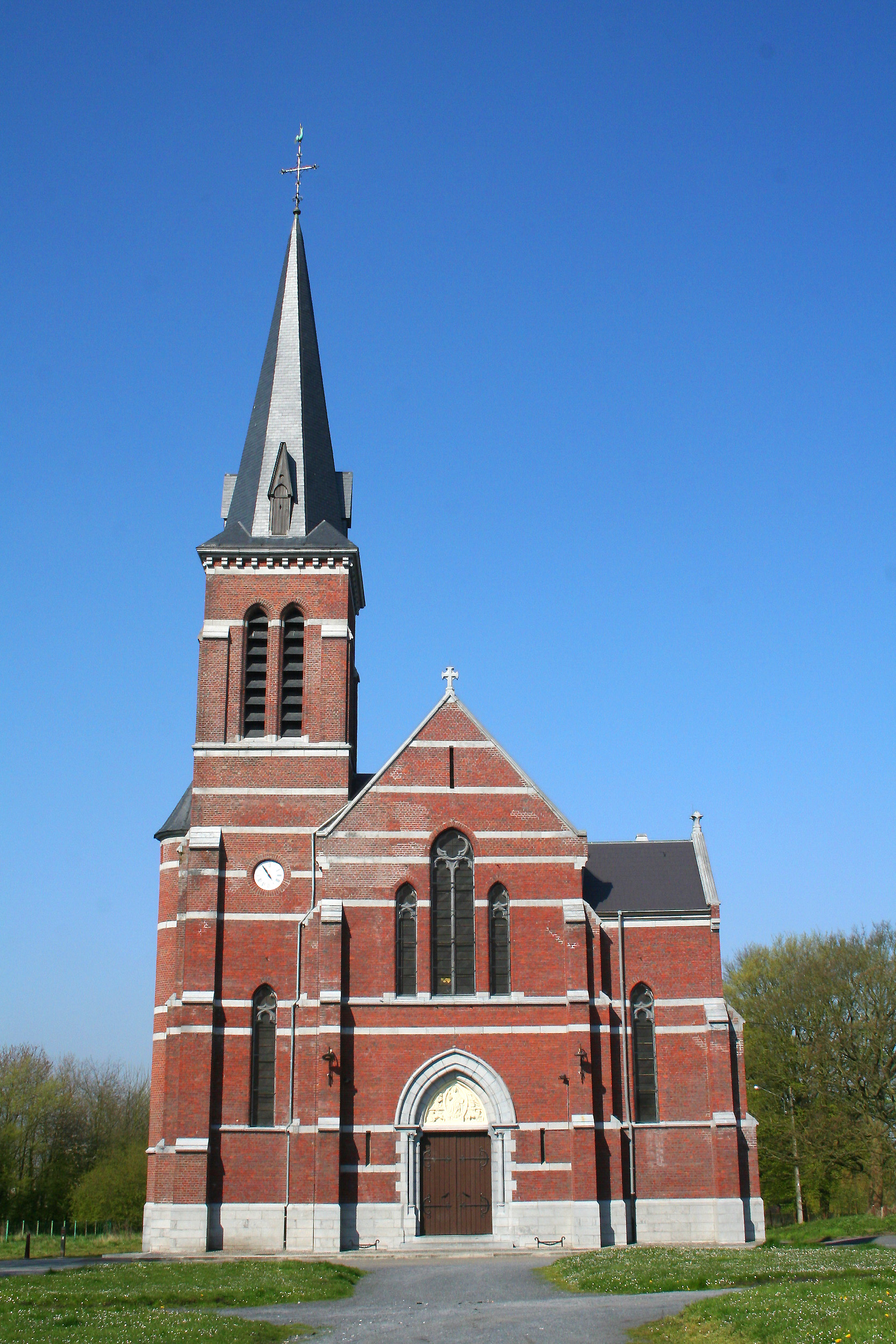 Houdeng-Aimeries (Belgium), church St. Barbara (1905) in the Model village of «Bois-du-Luc» (1838-1853).